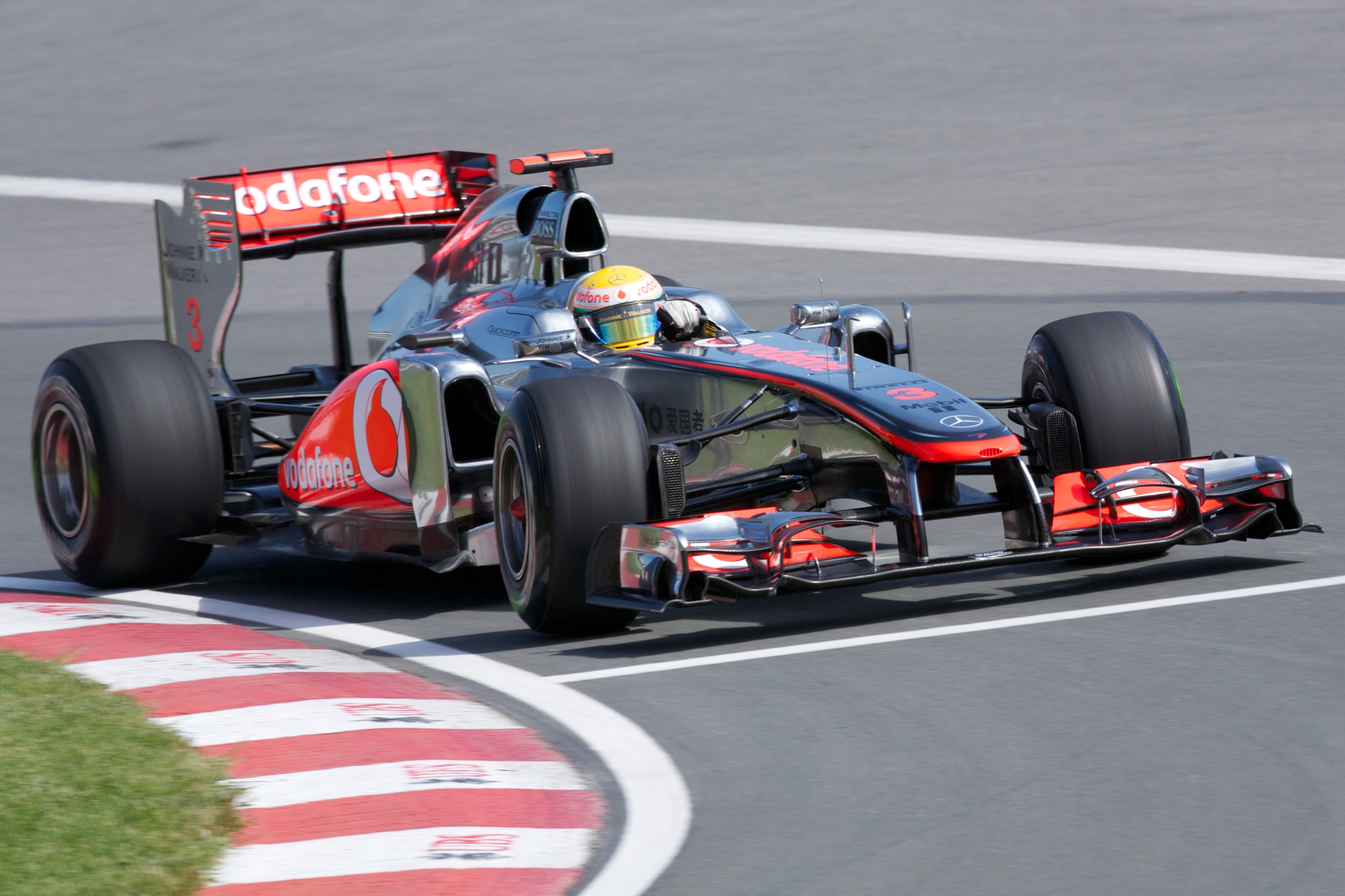 2011 Canadian Grand Prix